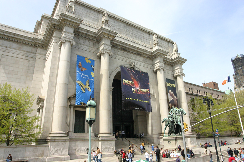 Frontview of American Museum of Natural History